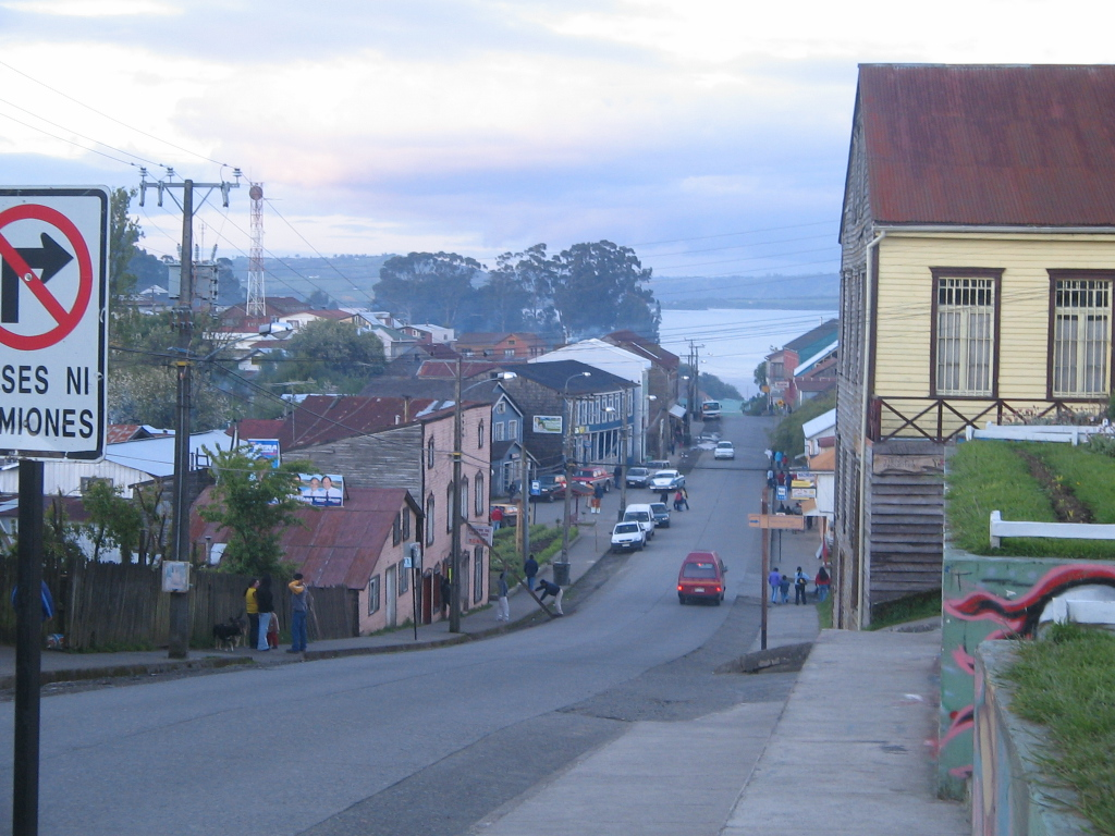 Calle Centenario foto tomada desde la antigua plaza